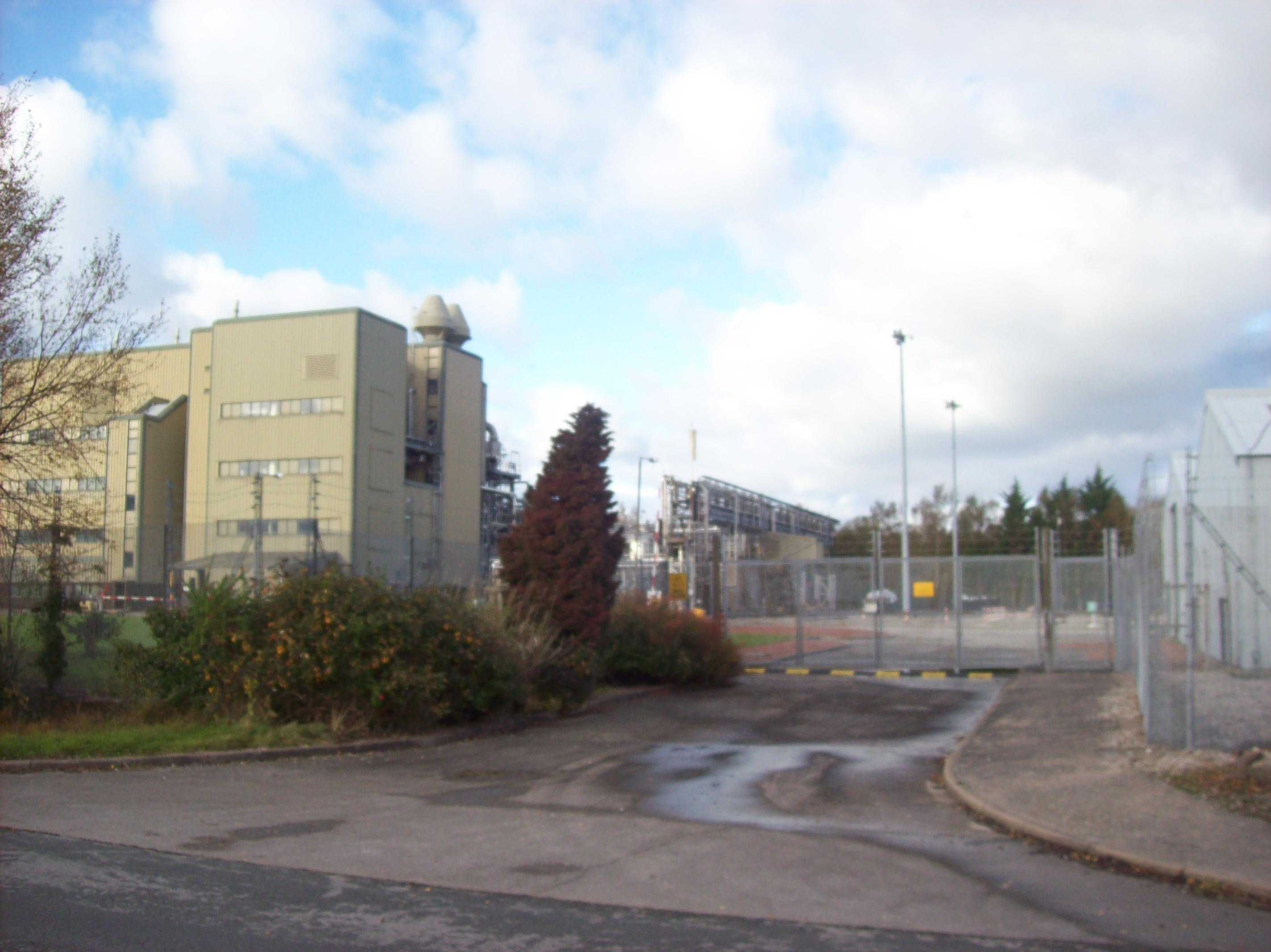 One of the entrances (not the main one) to the GlaxoSmithKline factory in Ulverston, Cumbria, England.